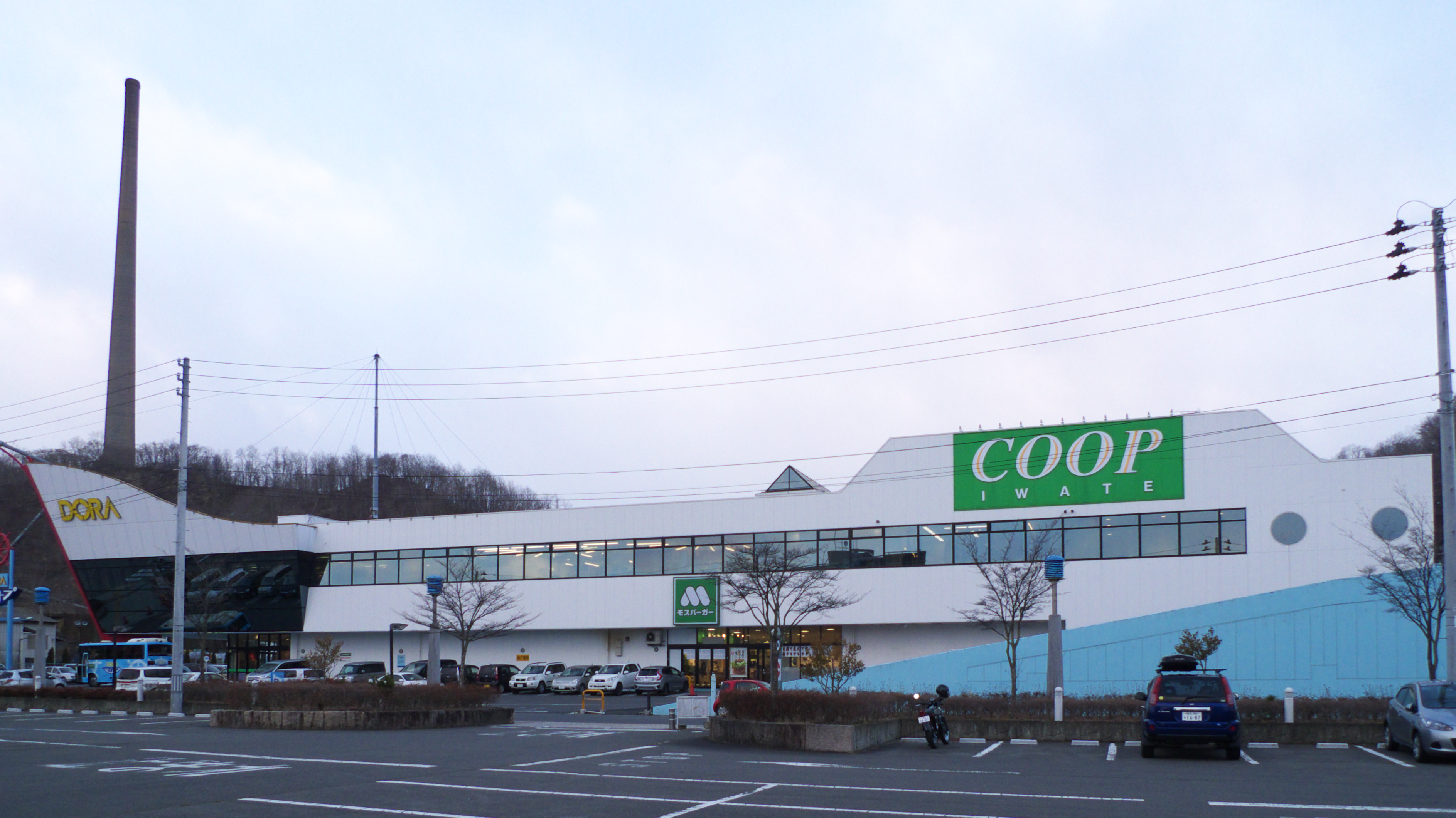 Marine Coop Dora in Miyako City, Iwate Prefecture, Japan